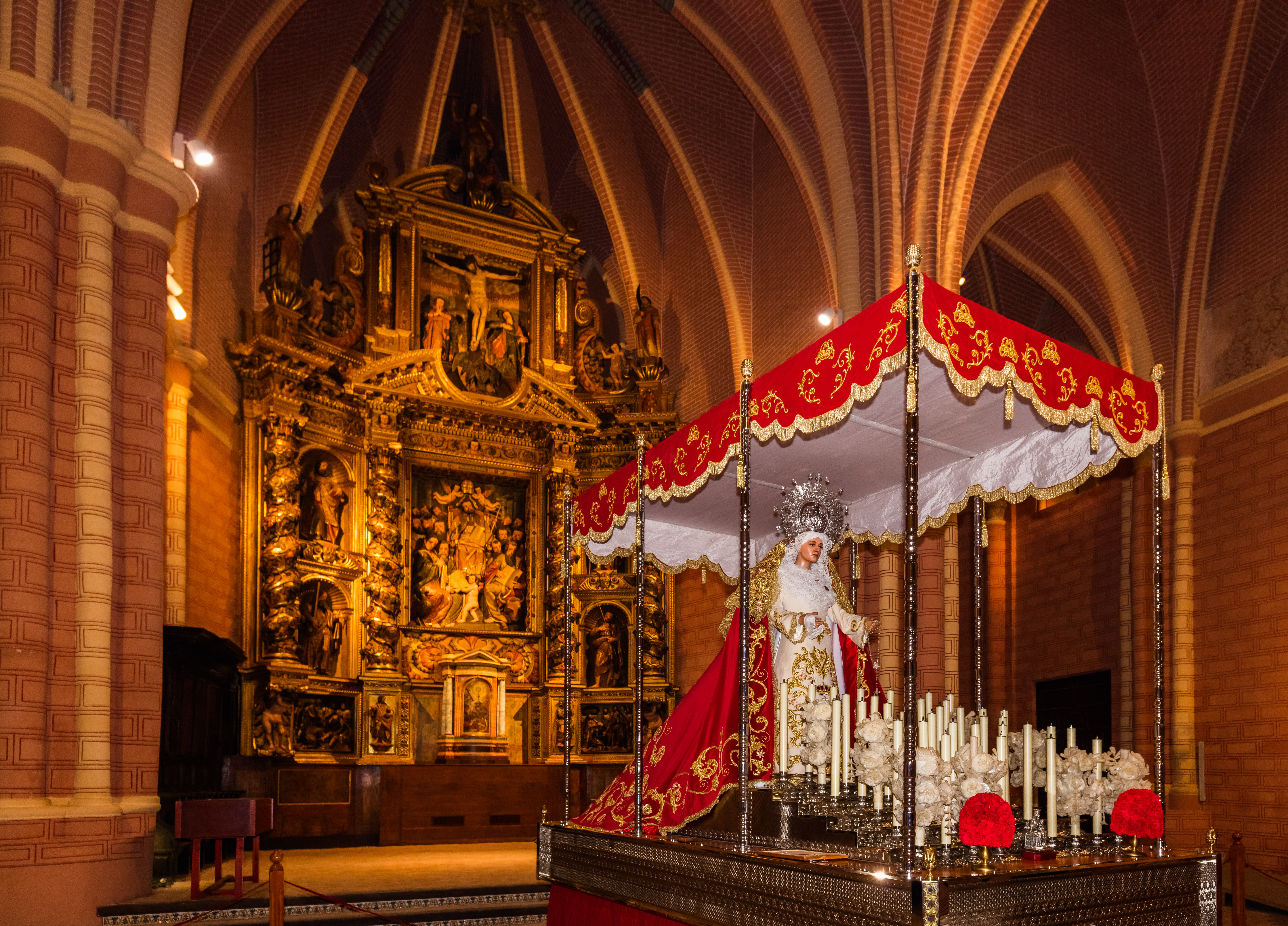 The Crowning with Thorns and Veronica Procession on Maundy Thursday, St Peter of Los Francos Church, Holy Week in Calatayud, Spain.